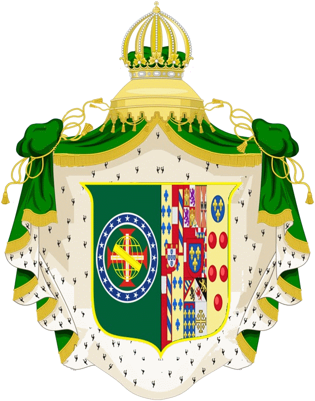 I have done this based on historical documents that prove that this was the Official Coat of Arms of Empress Teresa Cristina of Brazil.